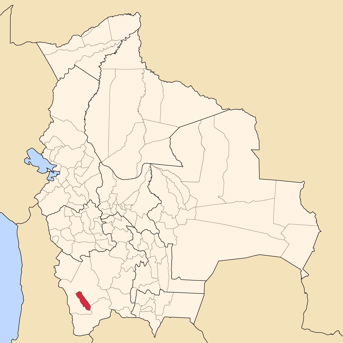 Map of Bolivia showing Enrique Baldivieso province, Potosí